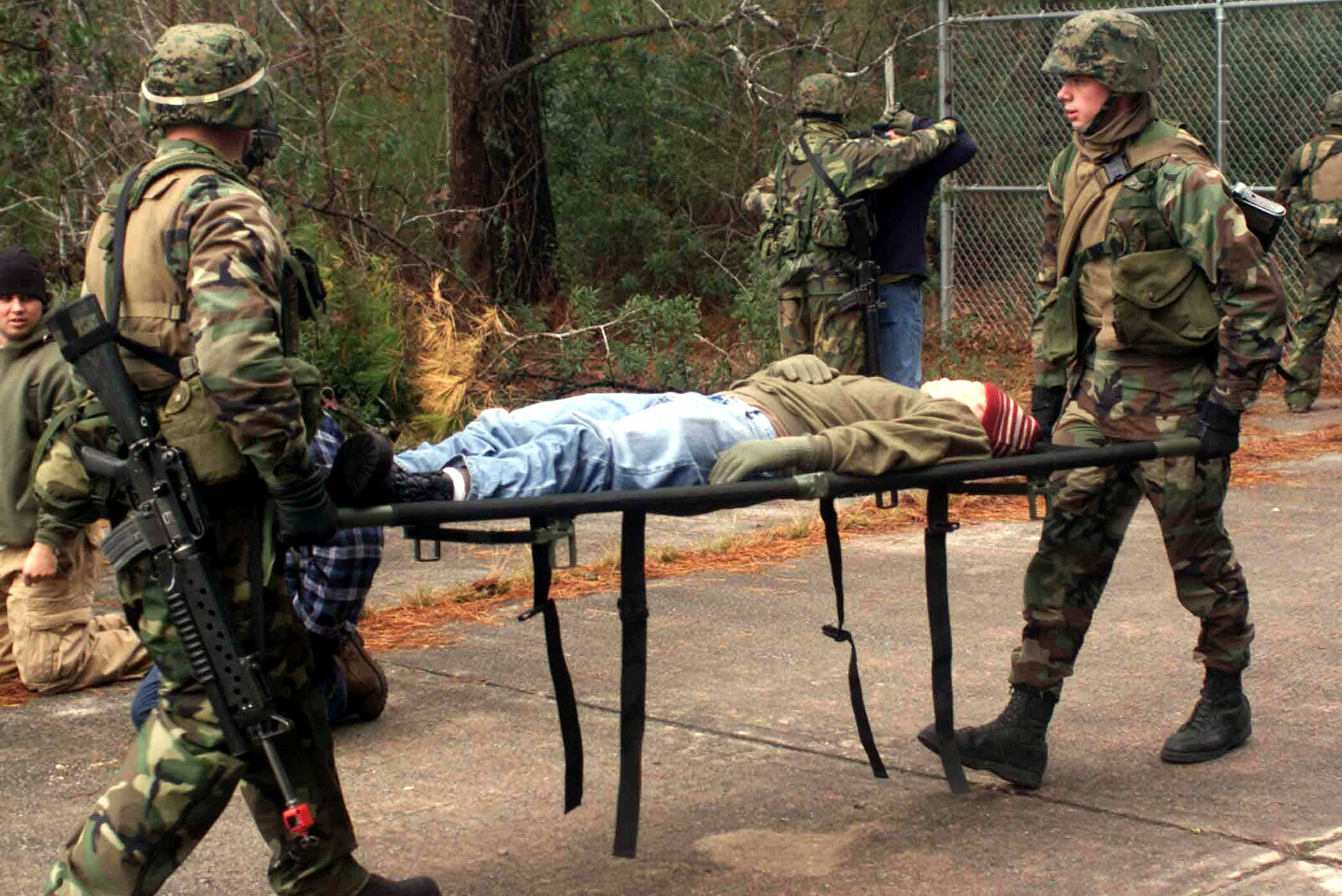 U.S. marines carrying a gurney in December 2003 as part of a training exercise. An 'injured displaced person' is carried to a medical tent by marines from MEU Service Support Group 22, the combat service support element of the 22d Marine Expeditionary Unit (MEU), during a humanitarian assistance mission executed by the MEU during its recent Expeditionary Strike Group exercise.